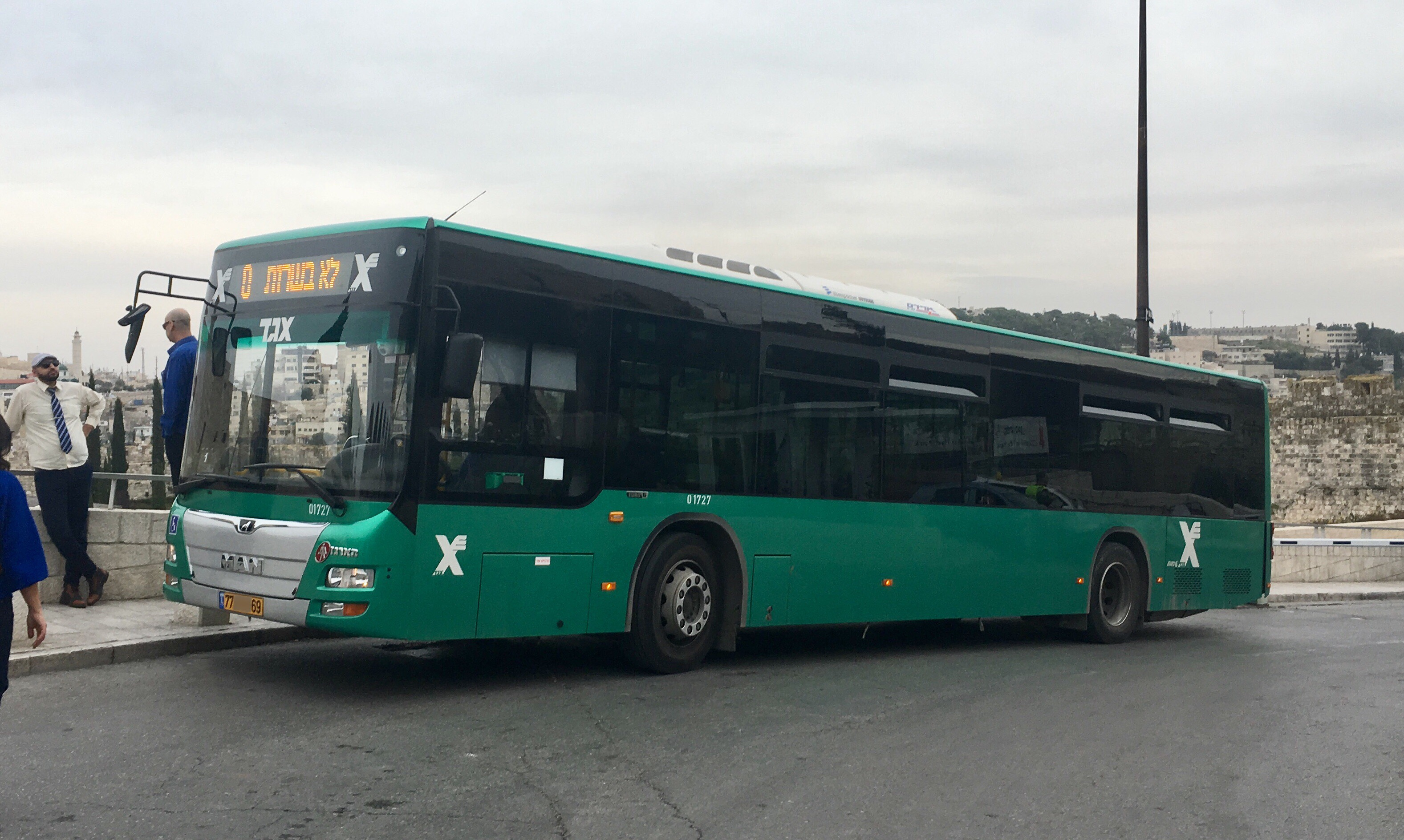 MAN NL323F operated by Egged on the Temple Mount in East Jerusalem